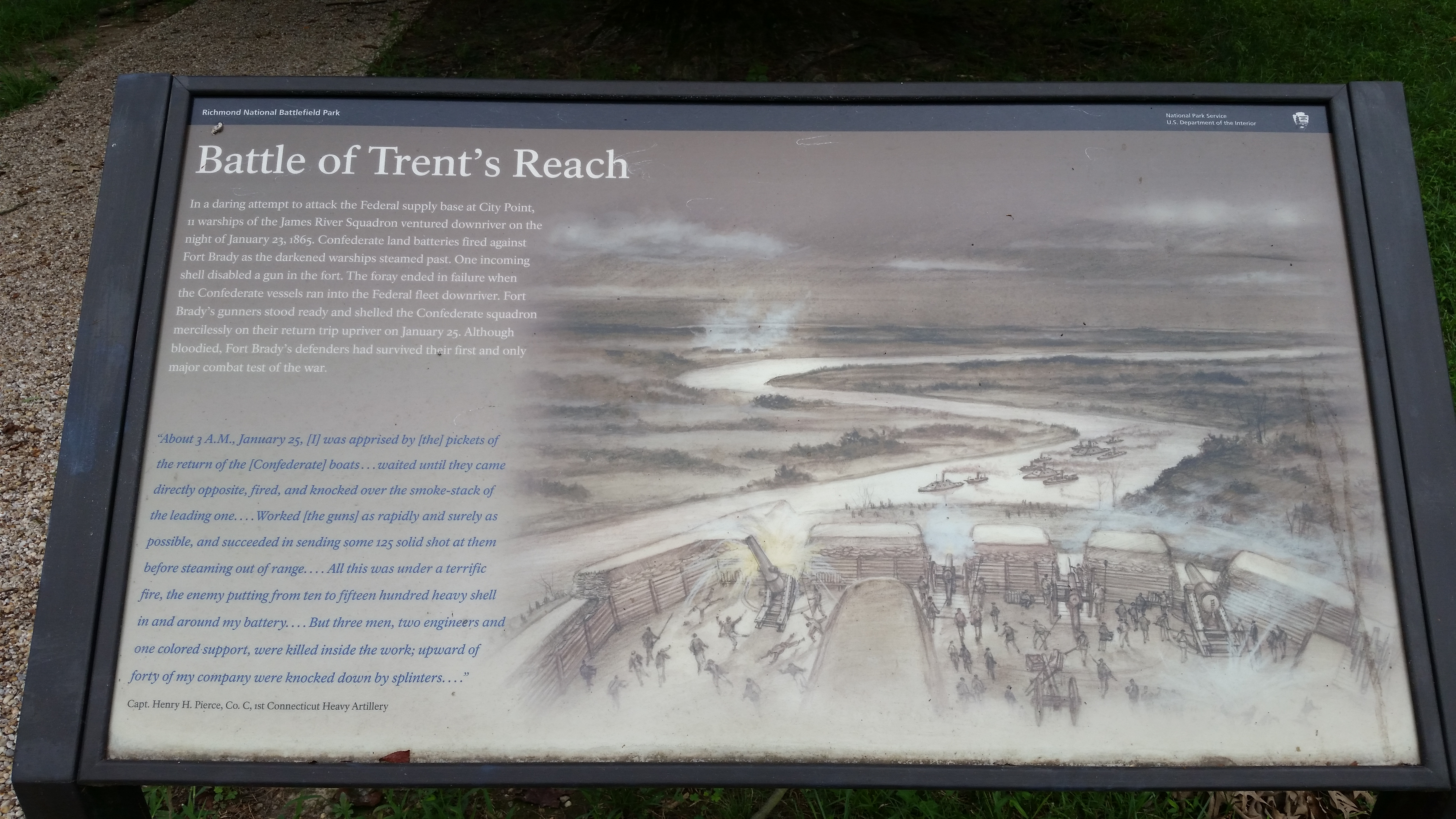 NPS marker at Fort Brady for the Battle of Trent's Reach